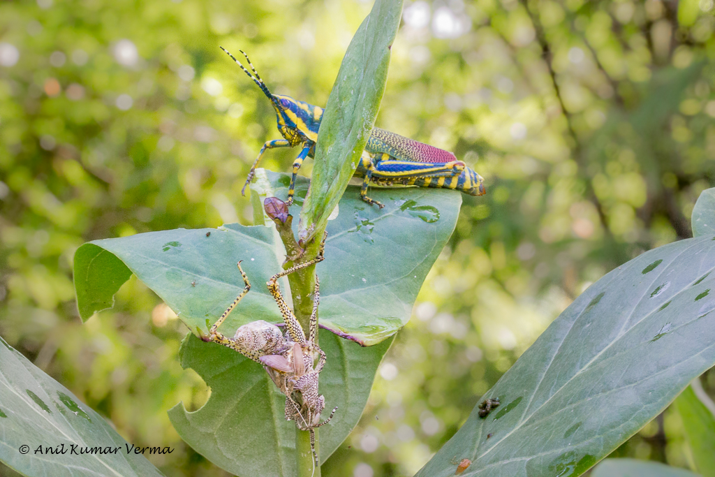 Painted Grasshopper changes its outward looks & comes out of its molt. Can see the molt & new form.